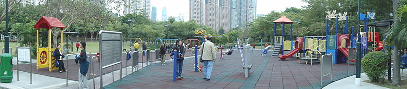 Nam Cheong Park Children Garden, Hong Kong, (Transferred this image from Tamil Wikipedia)